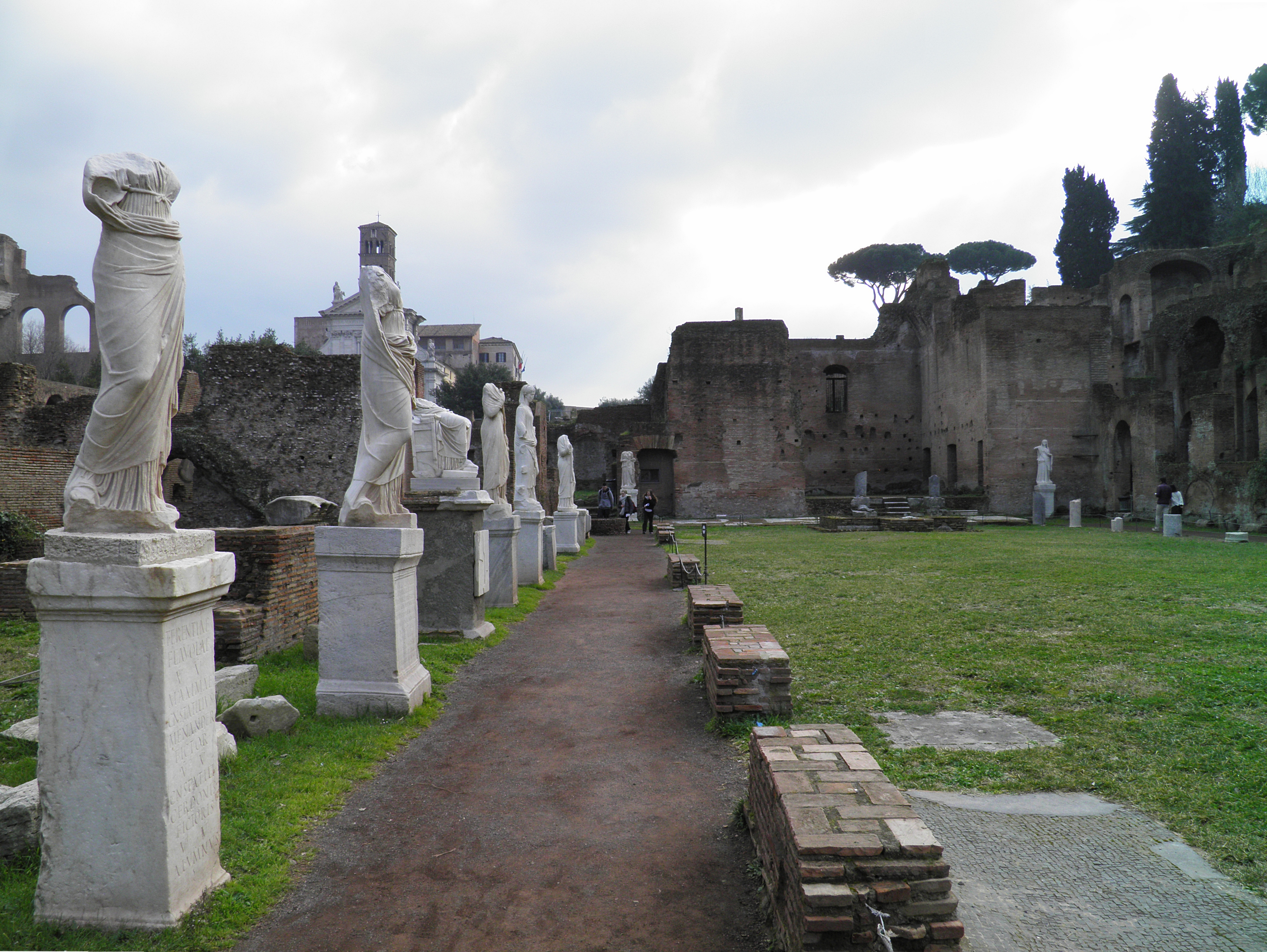 House of the Vestal Virgins (Atrium Vestae), Upper Via Sacra, Rome